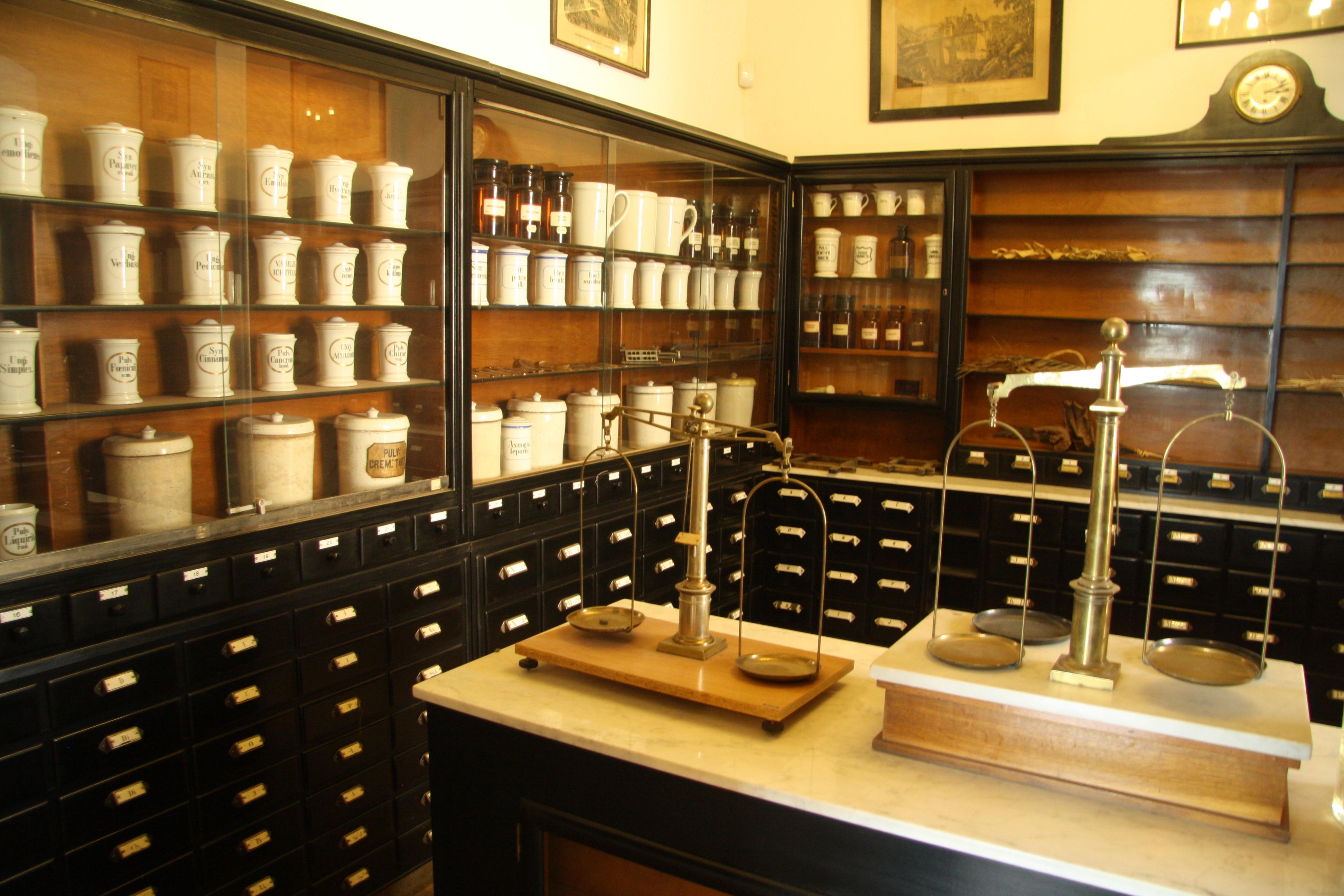 Overview of old pharmacy at Loket castle in Loket, Sokolov District.